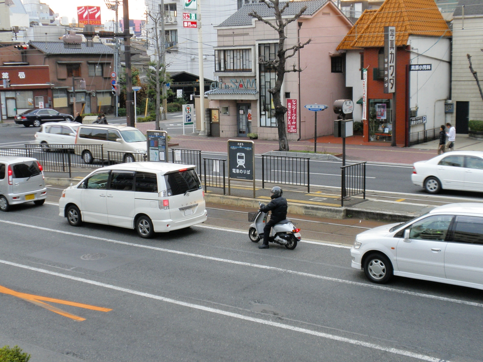 Okayama Electric Tramway Tamachi Station.